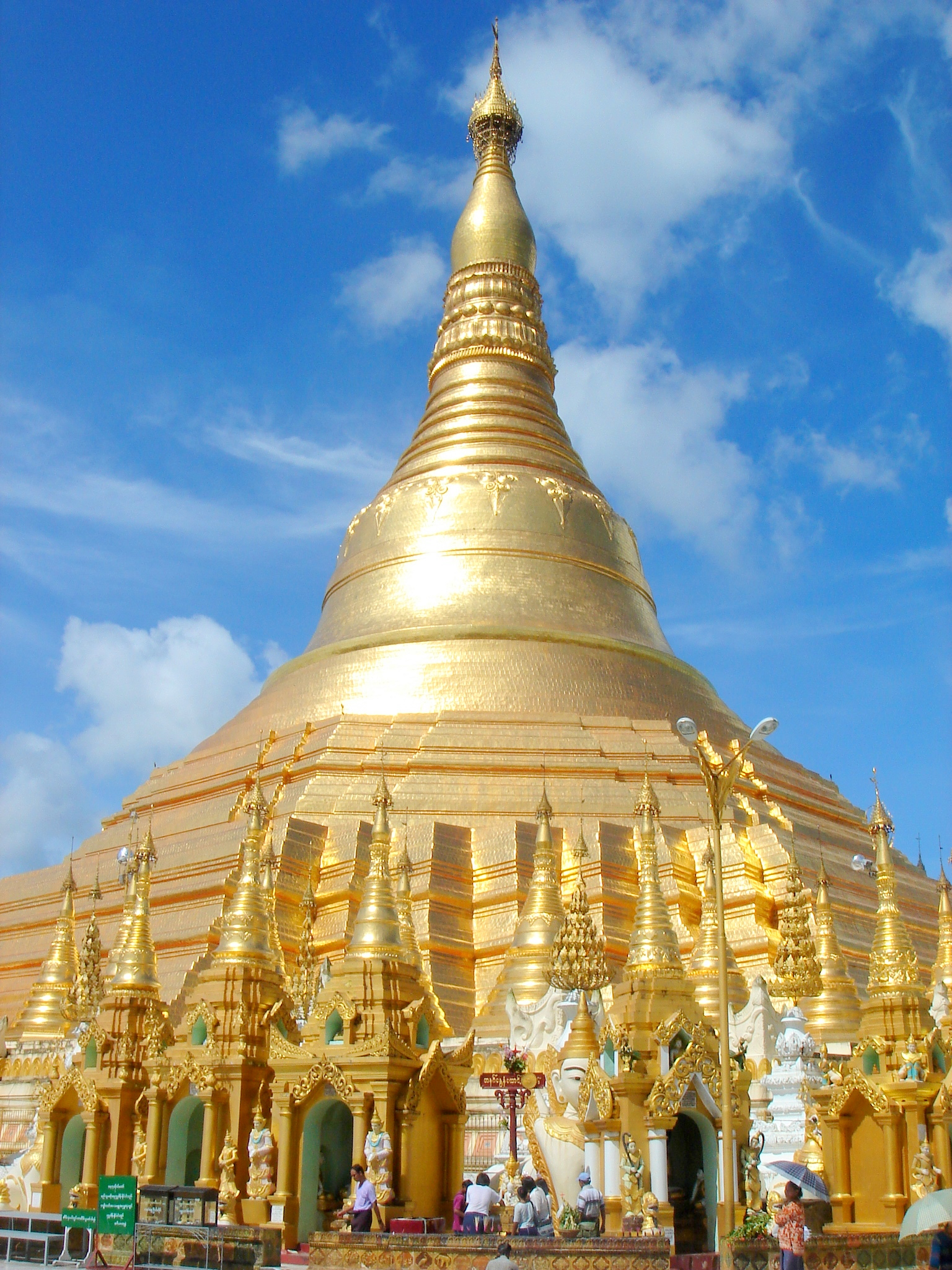 Photo of Shwedagon Pagoda